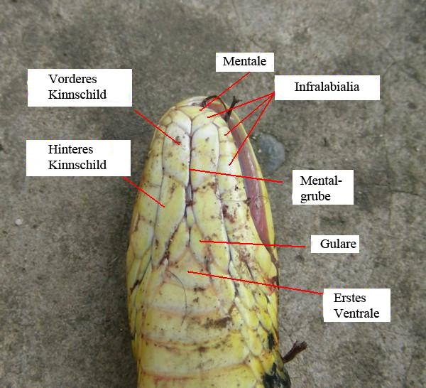 Scales on a snake's head. (Photo ). Original photo is of Buff-striped Keelback Amphiesma stolata Family Colubridae, Serpentes.